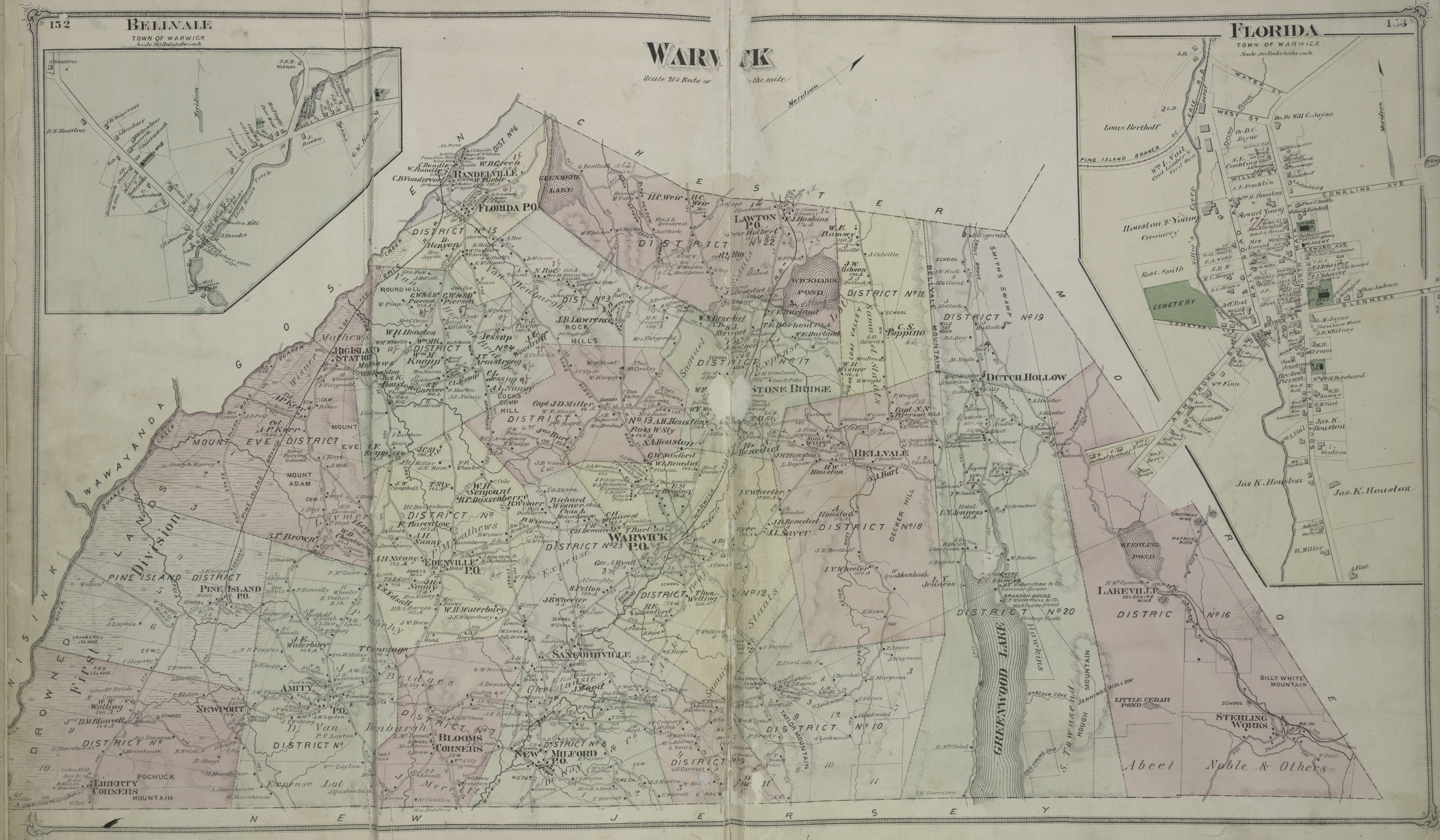 Bellvale [Village]; Warwick [Township]; Florida [Village]; Atlases of the United States / New York / County atlas of Orange, New York / from actual surveys by and under the direction of F.W. Beers. Note: cropped from .tiff version